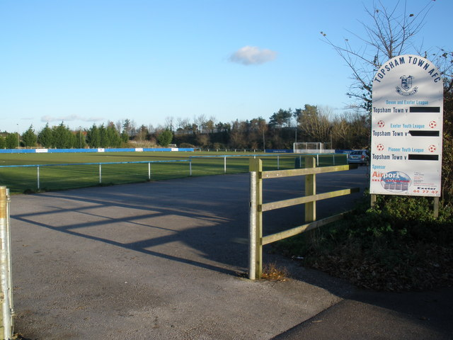 Topsham Town AFC Members of the Devon and Exeter League.